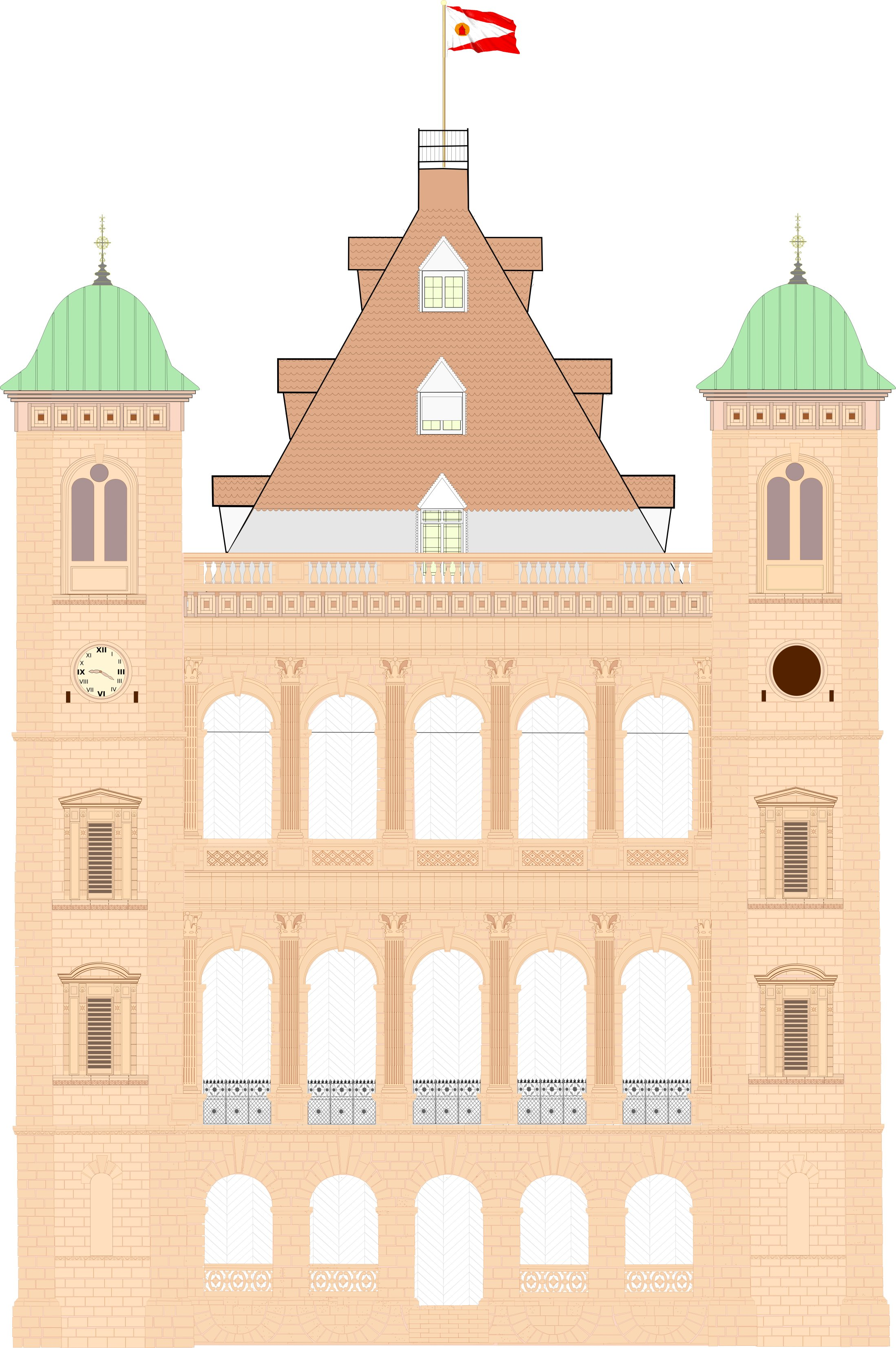 Manjakamiadana, Rova of Antananarivo Madagascar